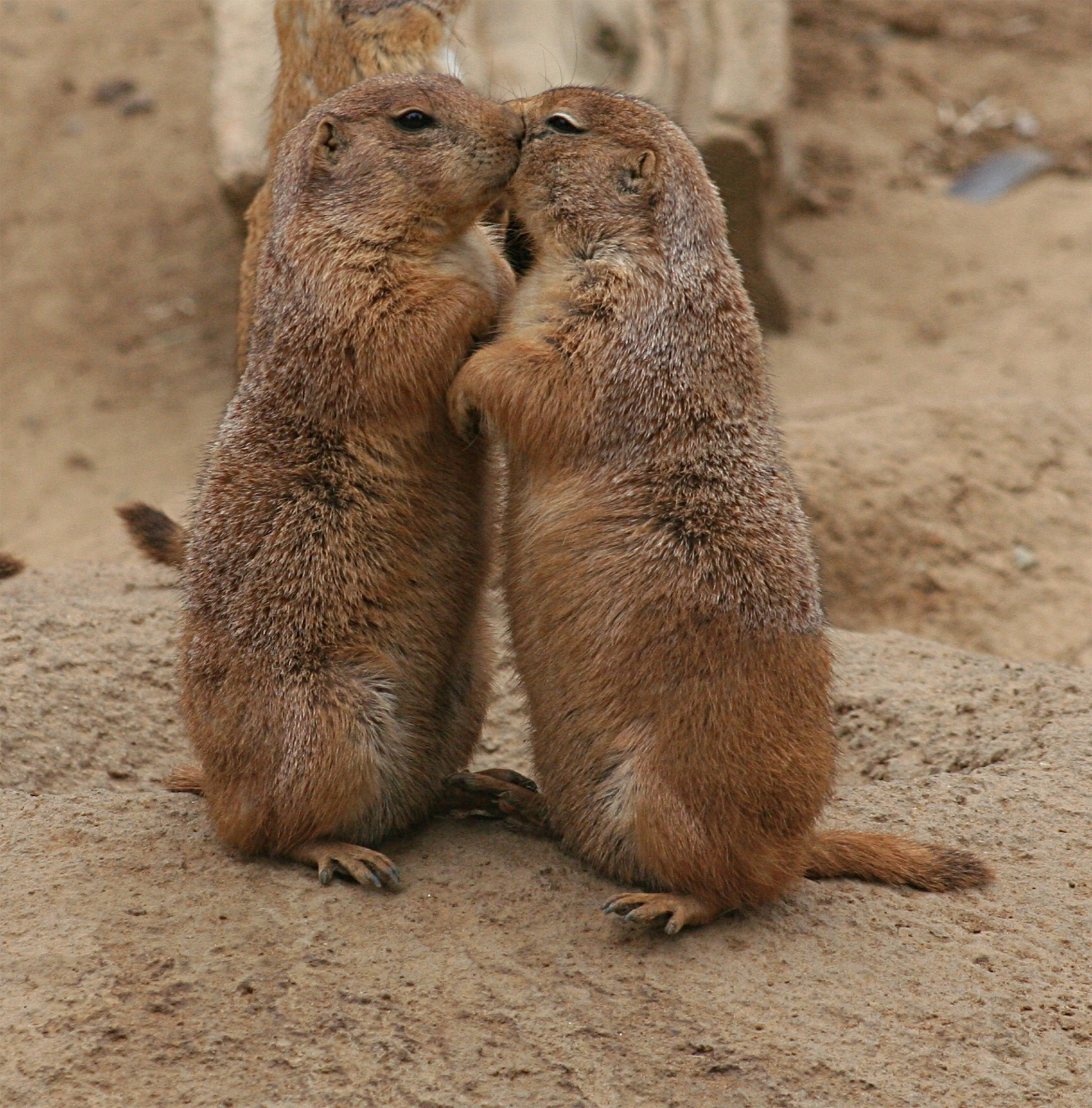 Kissing Black-tailed Prairie Dogs